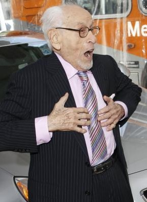 Actor Eli Wallach arrives at the Turner Classic Movies Classic Film Festival with the 2011 Buick Regal in Hollywood, California Thursday, April 22, 2010.